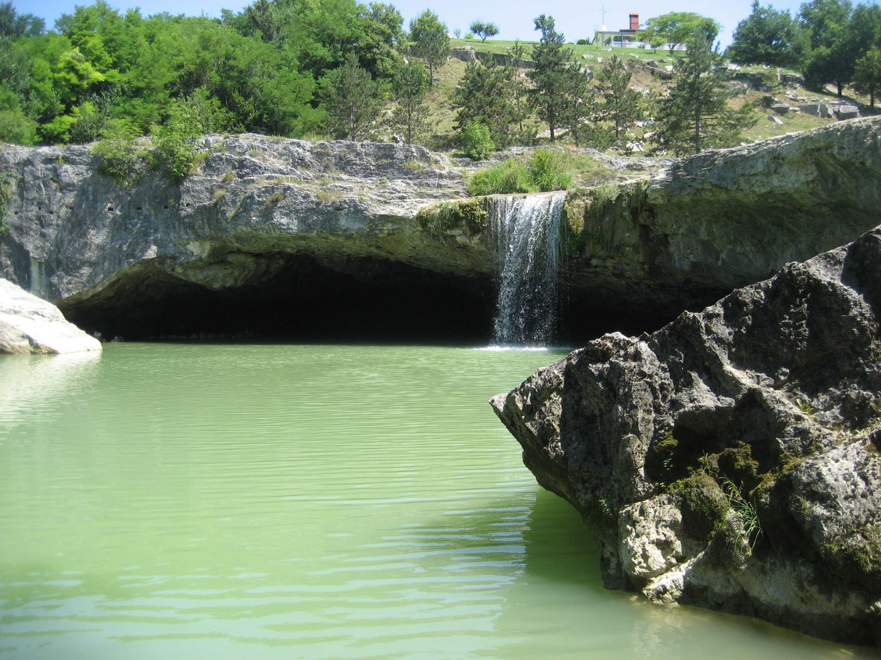 Zarecki Krov, Croatia: Lake and Waterfall.